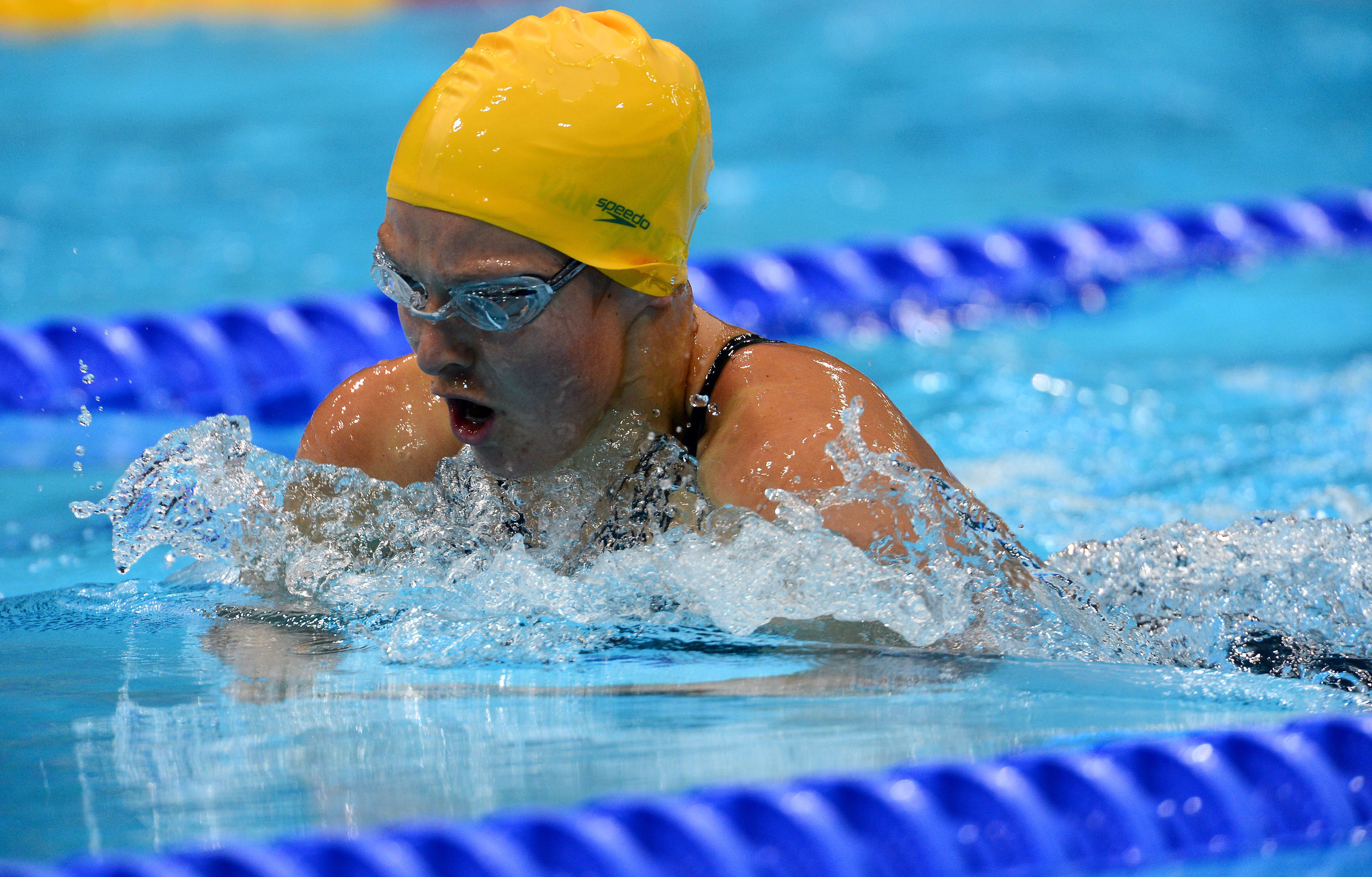 Photograph of Australian Paralympic team member Teigan Van Roosmalen at the 2012 Summer Paralympic Games in London